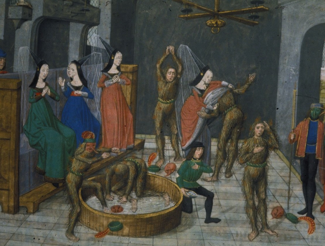 Miniature in colors and gold titled "Fire at a masked dance" showing the Bals des Ardents, from Jean Froissart Chroniques, illustrated before 1483 in Bruges